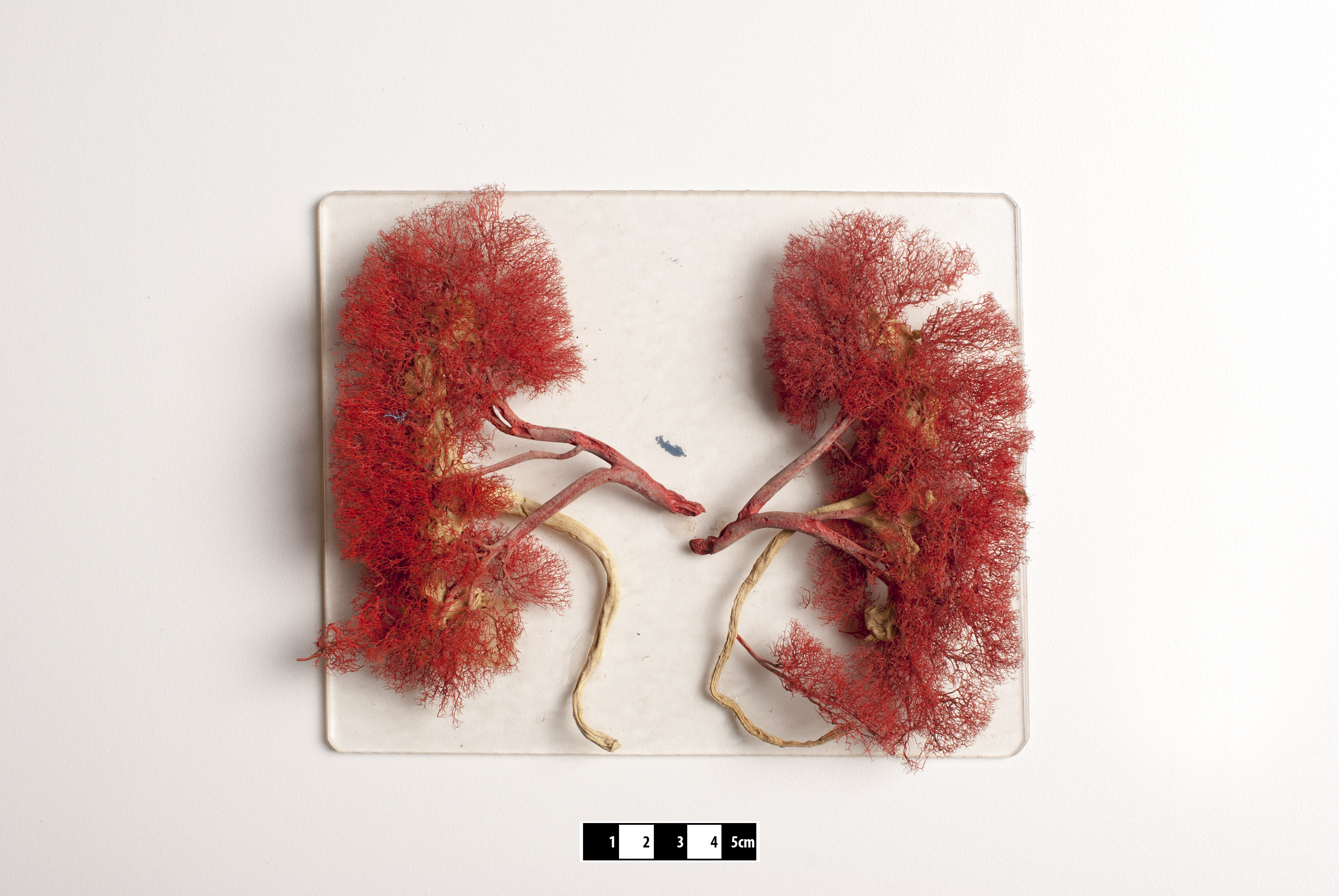 Mammal kidneys. Mammalia Technique of vinylite and corrosion. Allow the visualization of the vascular architecture of the body. Specimens on display at the Museum of Veterinary Anatomy, FMVZ USP. This file was published as the result of a partnership between the Museum of Veterinary Anatomy FMVZ USP, the RIDC NeuroMat and the Wikimedia Community User Group Brasil. This GLAM project is reported.